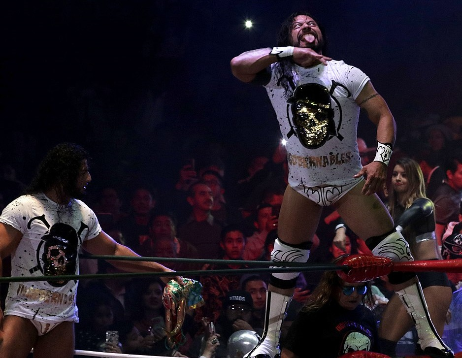 Mexican Professional wrestlers Rush and El Terrible